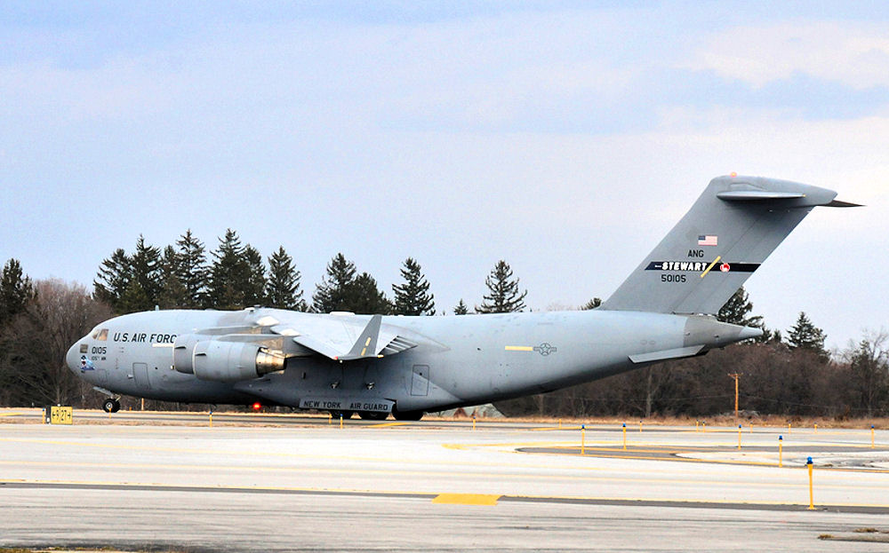 TEWART AIR NATIONAL GUARD BASE--A C-17 Globemaster III assigned to the 105th Airlift Wing of the New York Air National Guard takes off with members of the United States Military Academy Football Team on board on Thursday, March 8. The members of the Army Team, all cadets at West Point, were flown to Fort Benning, Georgia aboard two of the wing’s C-17s for a training event. (Photo by Tech Sgt. Michael O'Halloran)